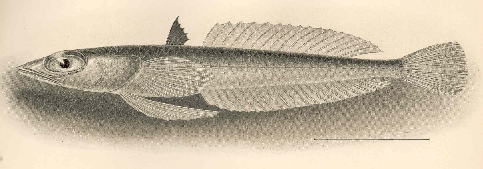 Pteropsaron incisum Gilbert. Type Subject: Pteropsaridae, Pteropsaron Tag: Fish